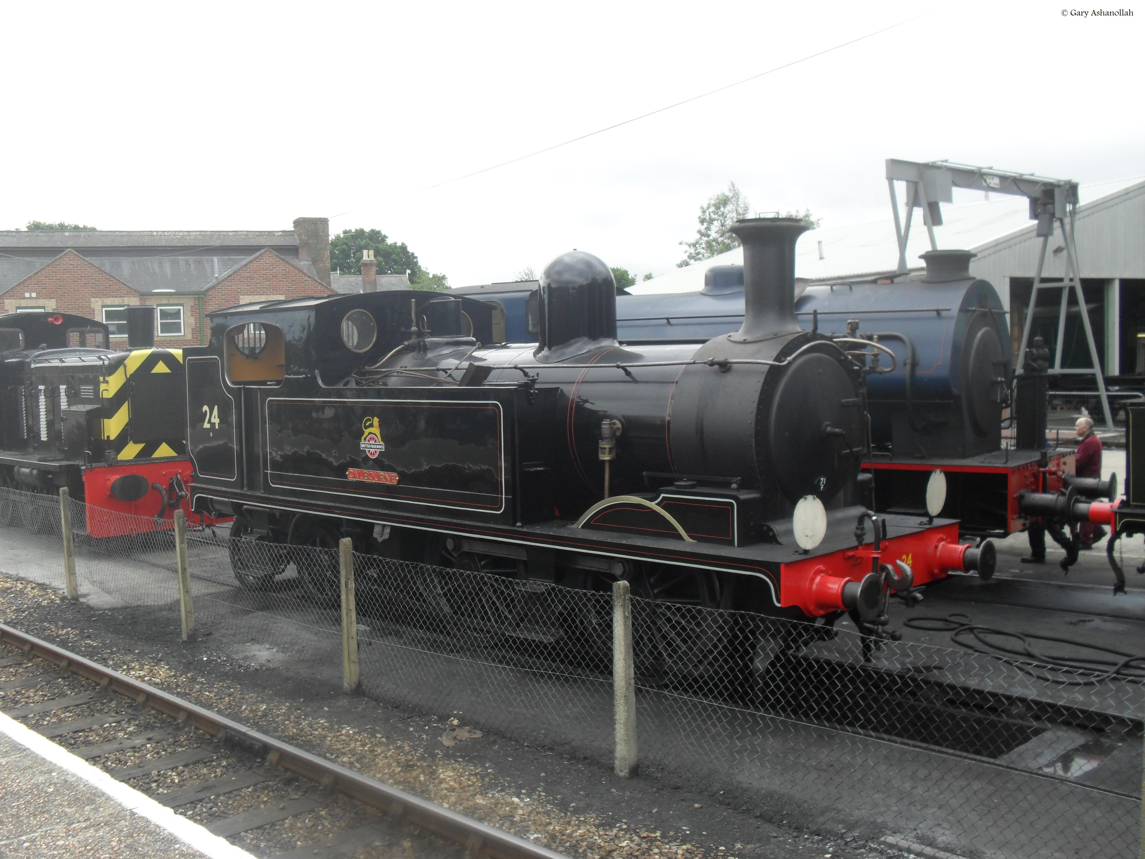 copyright Gary Ashanollah 2010